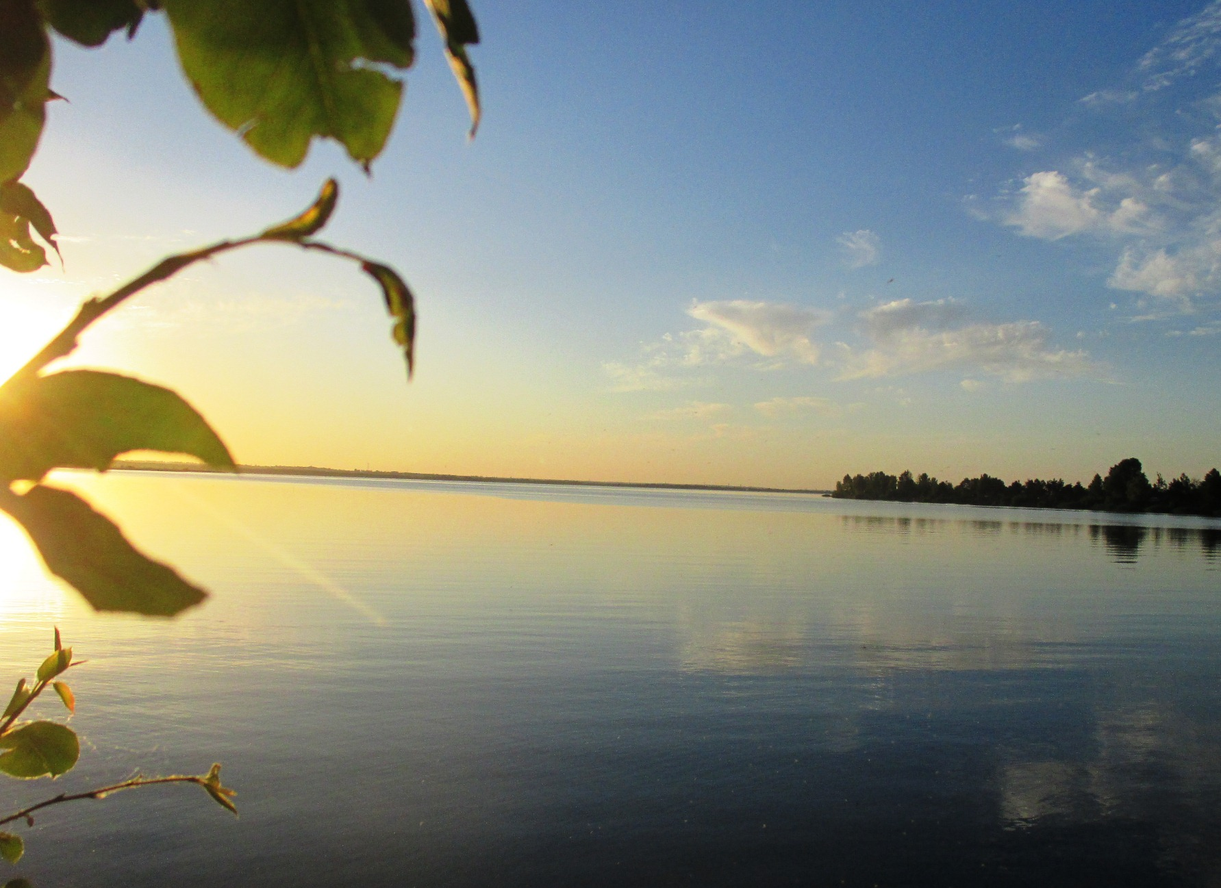 Reservoir Nuclear Power Plant